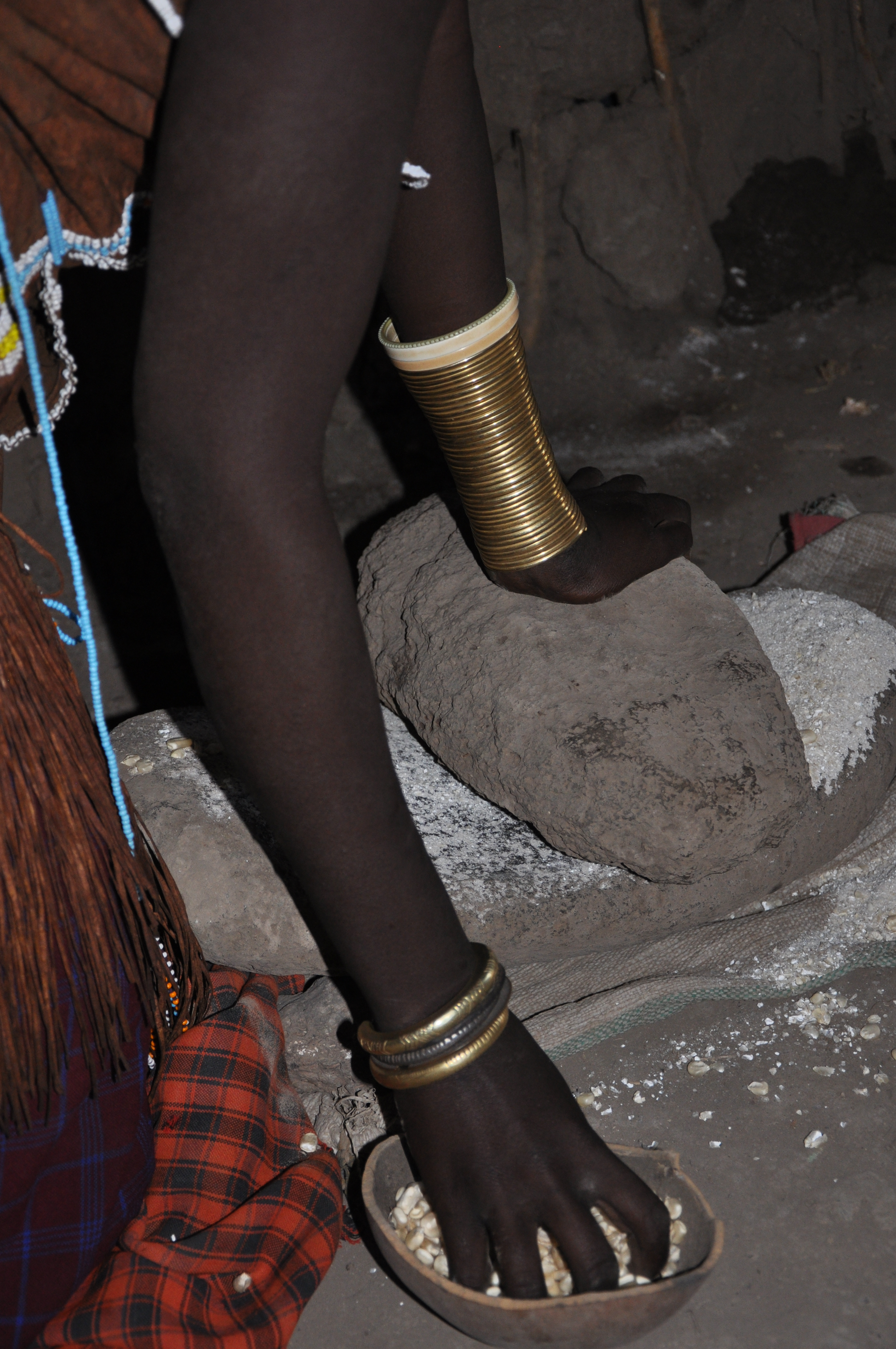 Datoga Woman, Grinding Corn - Lake Eyasi, Tanzania